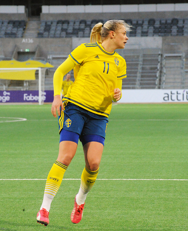 Swedish footballer Fridolina Rolfö